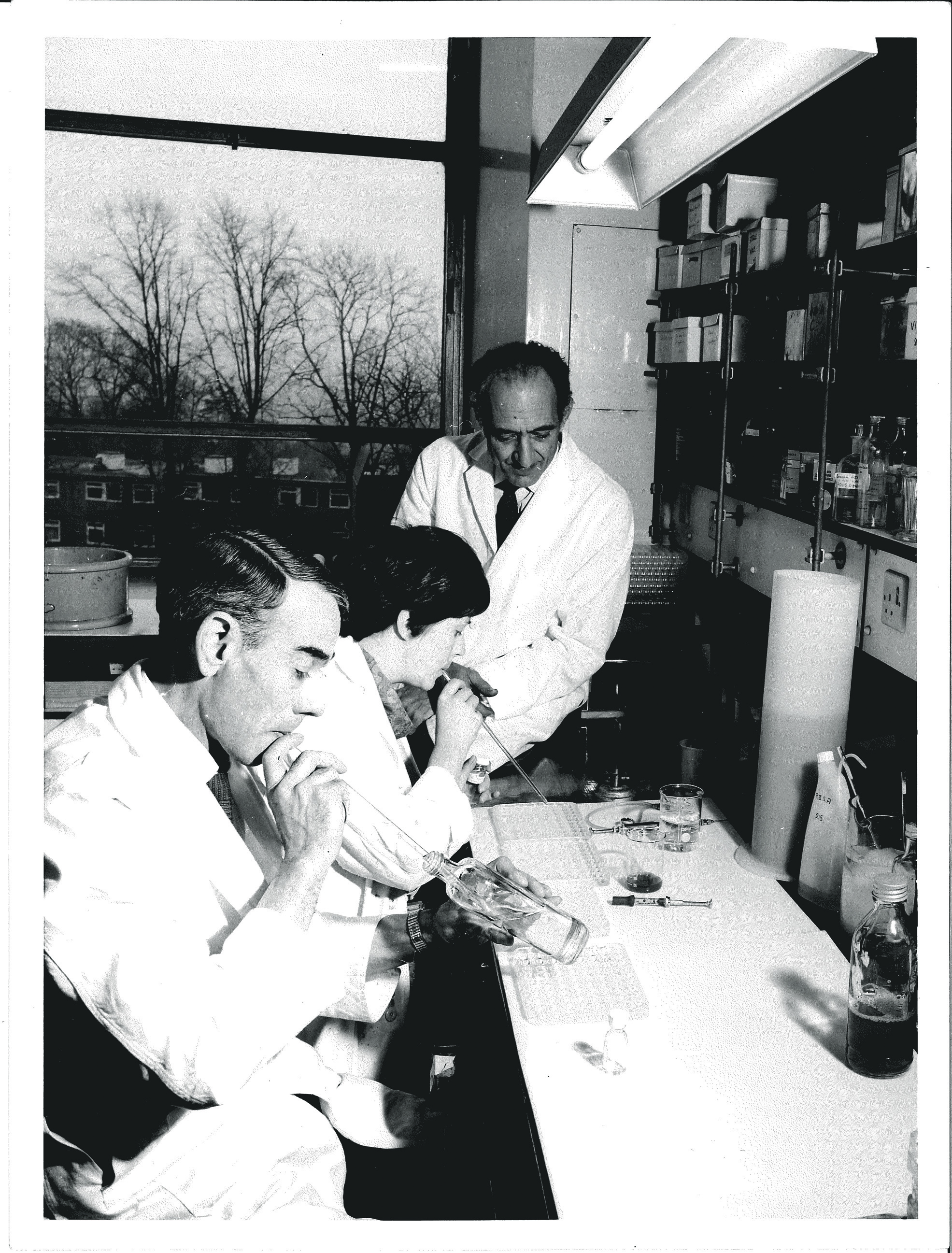 Helio Pereira, the then Director of the World Influenza Centre at Mill Hill, oversees Vic Law and Sue Potts, who are carrying out a haemagglutination inhibition test to identify different strains of flu virus.